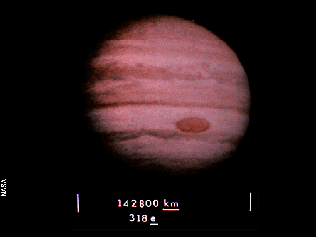 This is a photograph of Jupiter. It is part of the image collection on the Voyager Golden Record that is being carried into deep space aboard the Voyager 1 and 2 spacecrafts. The low quality and resolution is due to the limitations of the format used on the record but it is what will be seen by an extraterrestrial intelligent life form if the probes ever gets discovered.